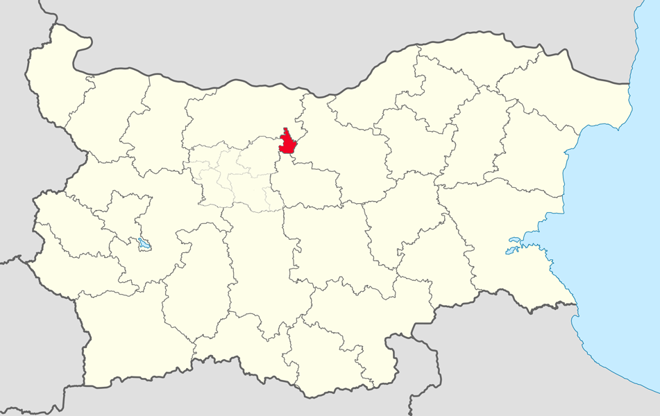 Location map of Letnitsa Municipality within Lovech Province, Bulgaria. Equirectangular projection, N/S stretching 130 %. Geographic limits of the map: N: 44.4° N S: 41.1° N W: 22.1° E E: 28.9° E